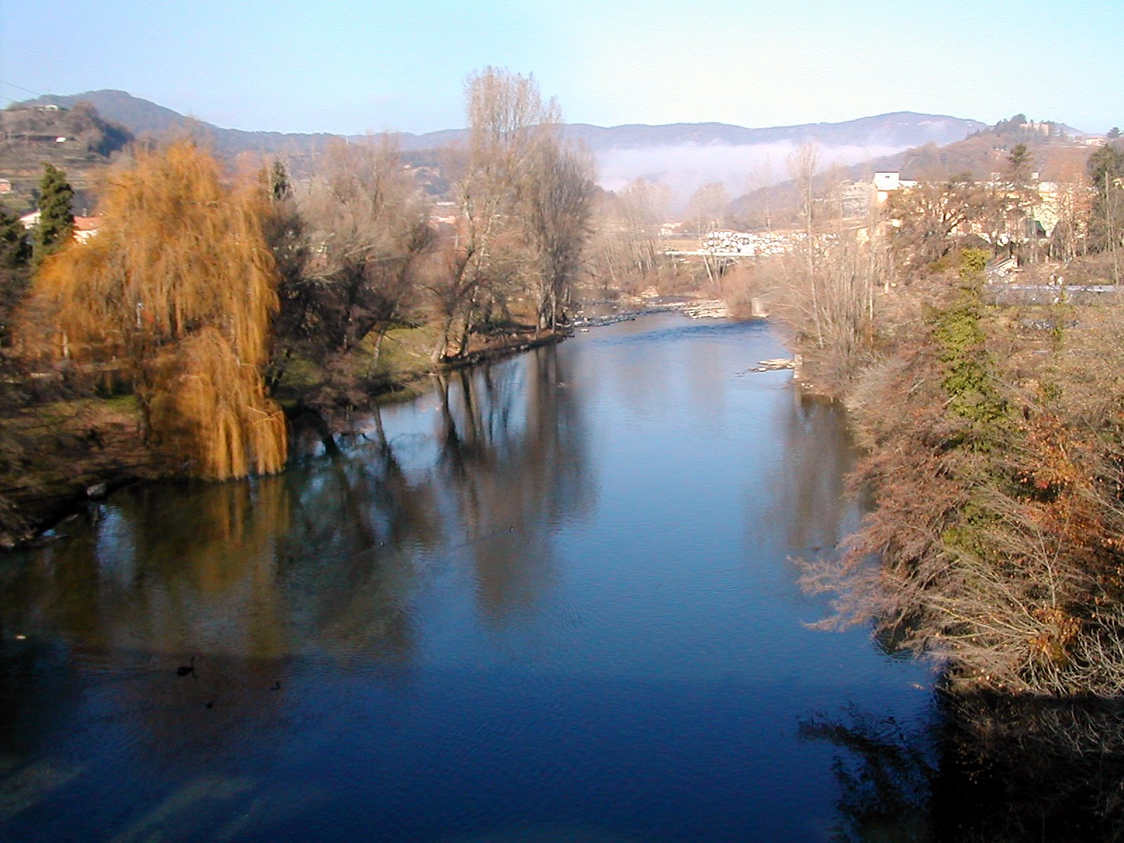 Ter River crossing Sant Quirze de Besora, Catalonia (Spain)